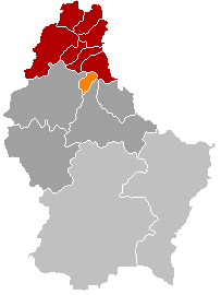 Consthum municipality location (valid until 1 January 2012). Own edit of Kanton ClervauxLocatie.png